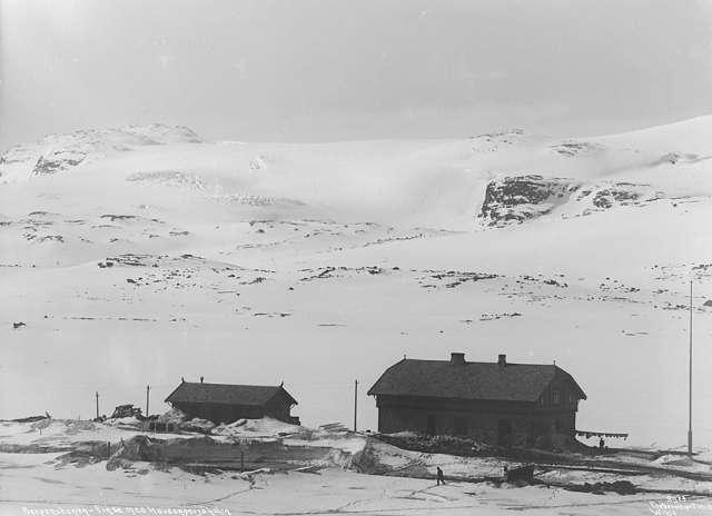 Finse railway station on Bergensbanen, Norway.